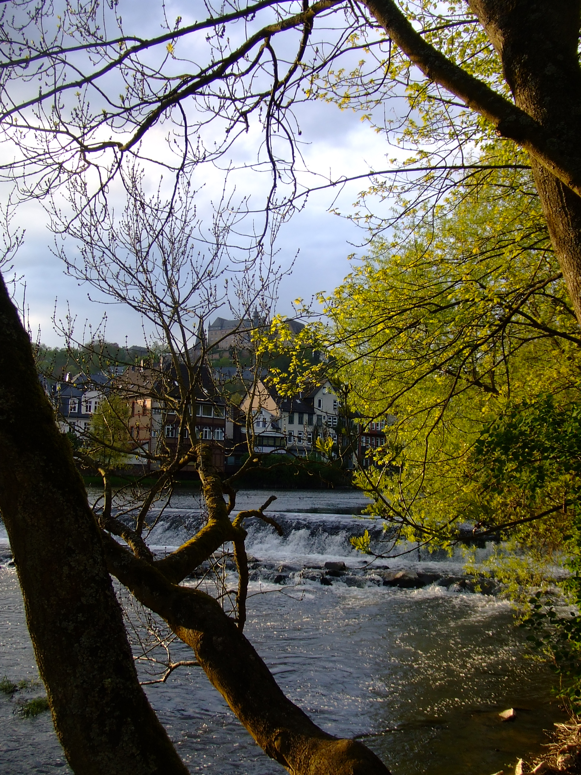 River Lahn passing through Marburg, Hessen, Germany